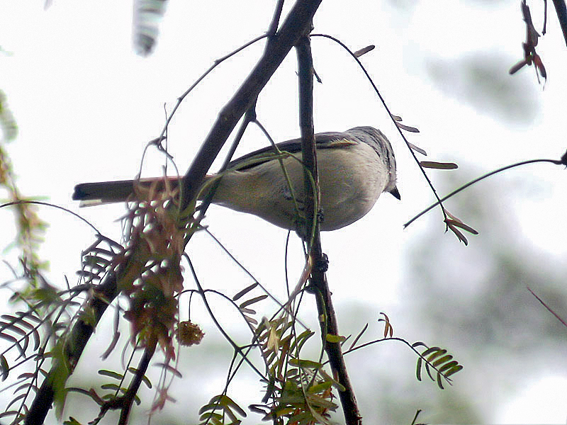 White-bellied Minivet Pericrocotus erythropygius at Bharatpur, Rajasthan, India.